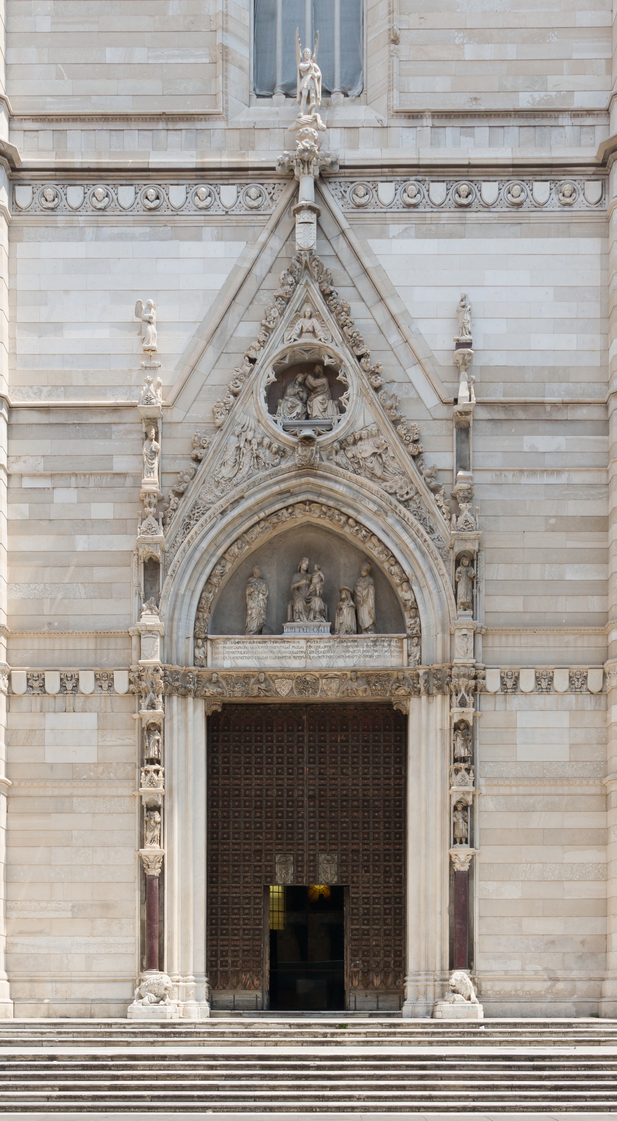 The main portal of the cathedral, Naples, Italy.